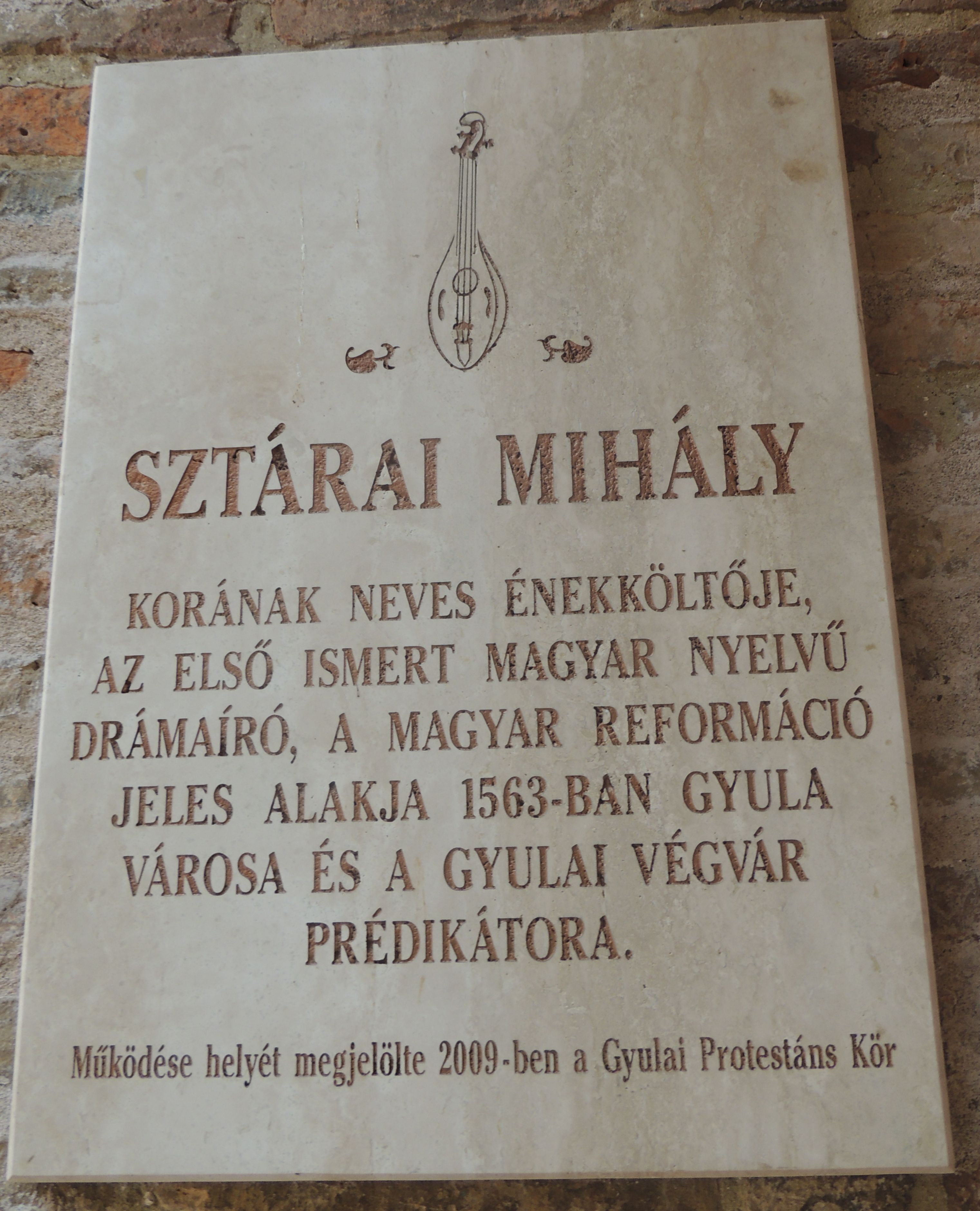 Plaque to Mihály Sztárai in the Gyula Castle (Várfürdő street)